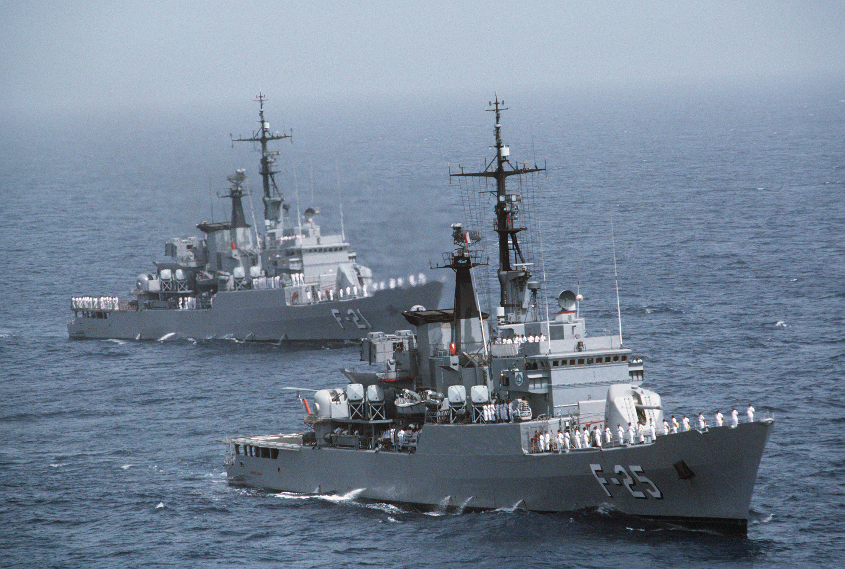 A starboard bow view of the Venzuelan frigates GENERAL SALOM (F 25) and the MARISCAL SUCRE (F 21) underway. The ships are transporting Venezuelan officials.